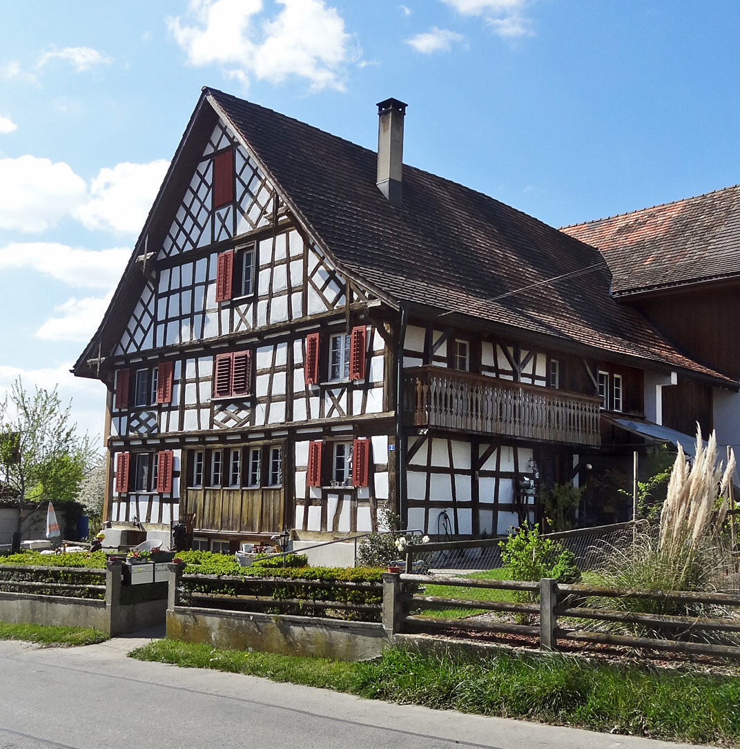 Timber framed house in Graltshausen, Switzerland